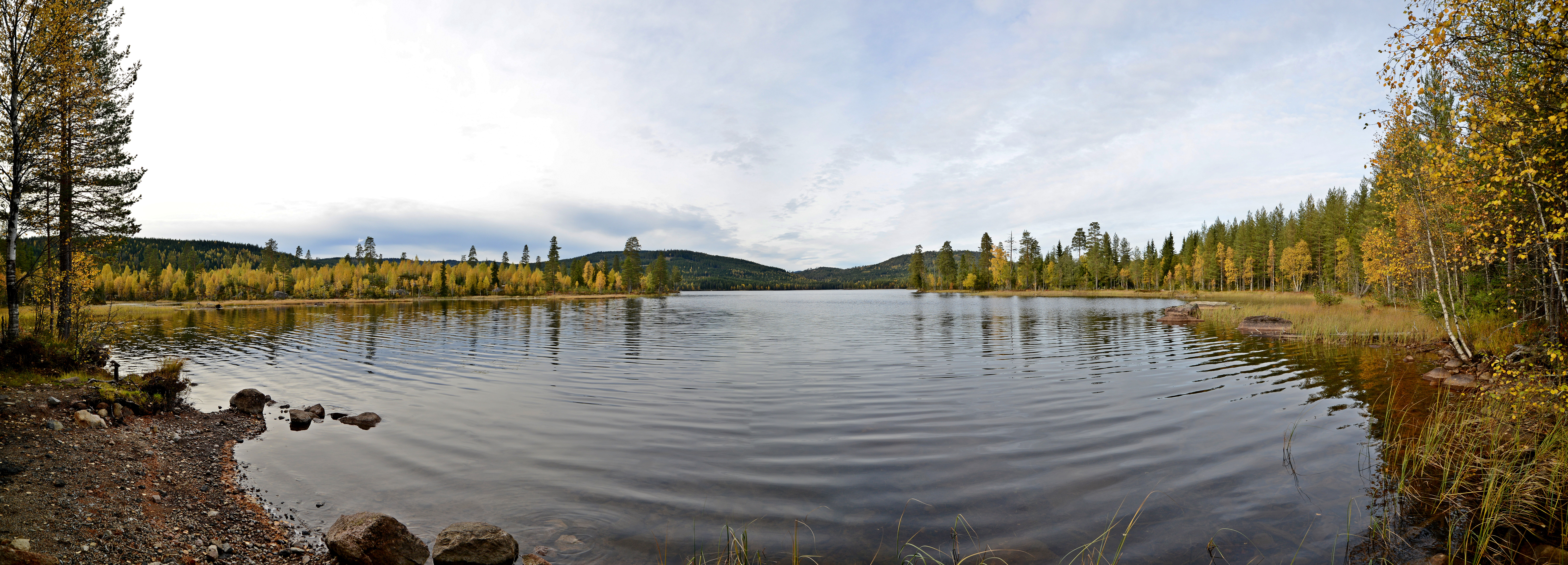 Avalsjøen in Lunner Oppland